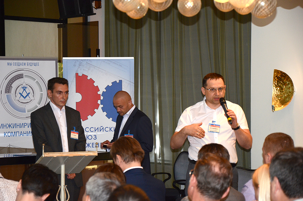 Семинар_РСИ_3